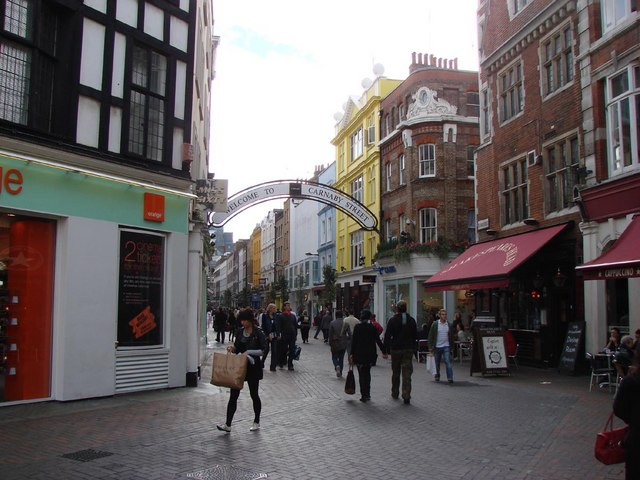 Carnaby Street